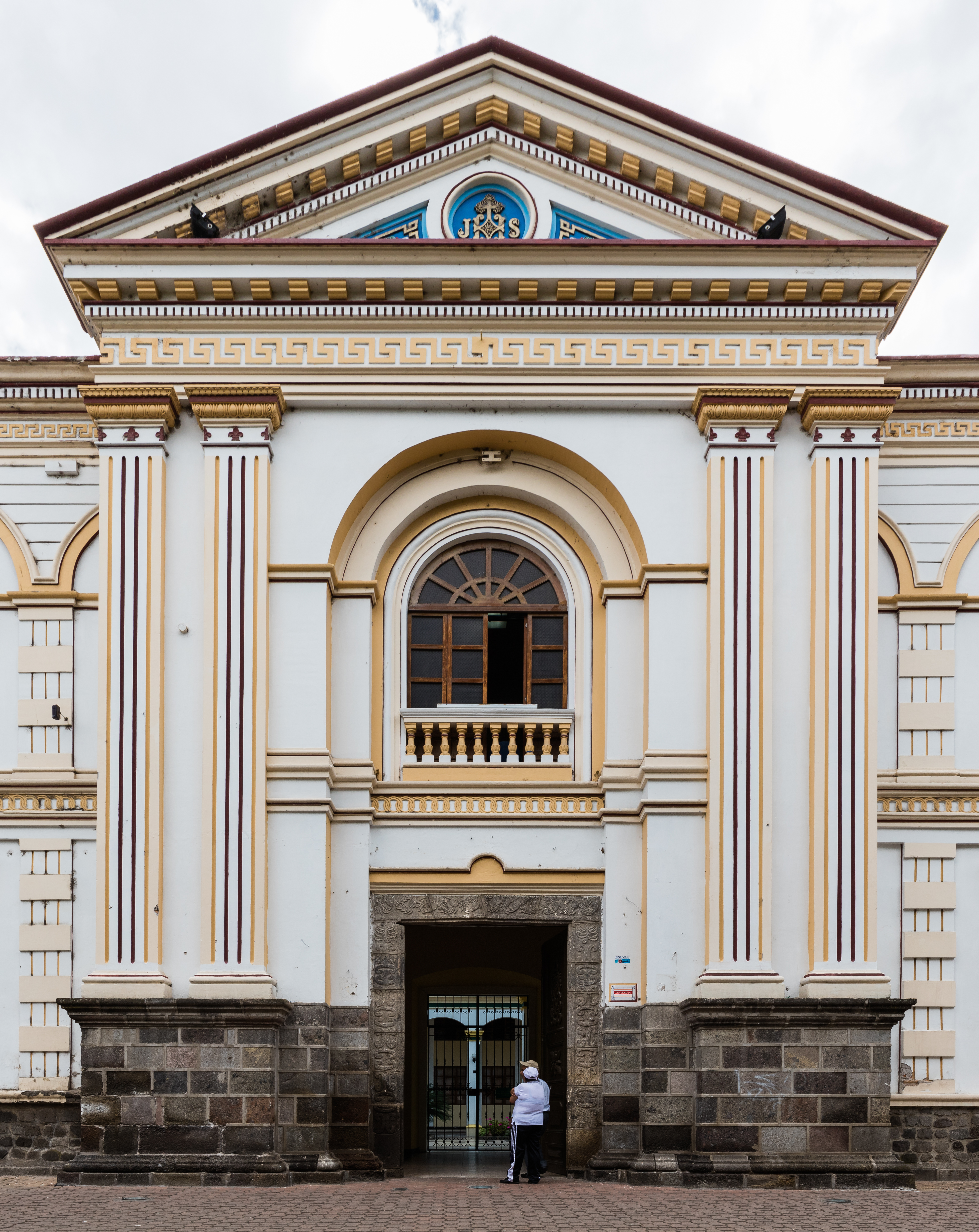 Diocese subdivision, San Antonio de Ibarra, Ecuador